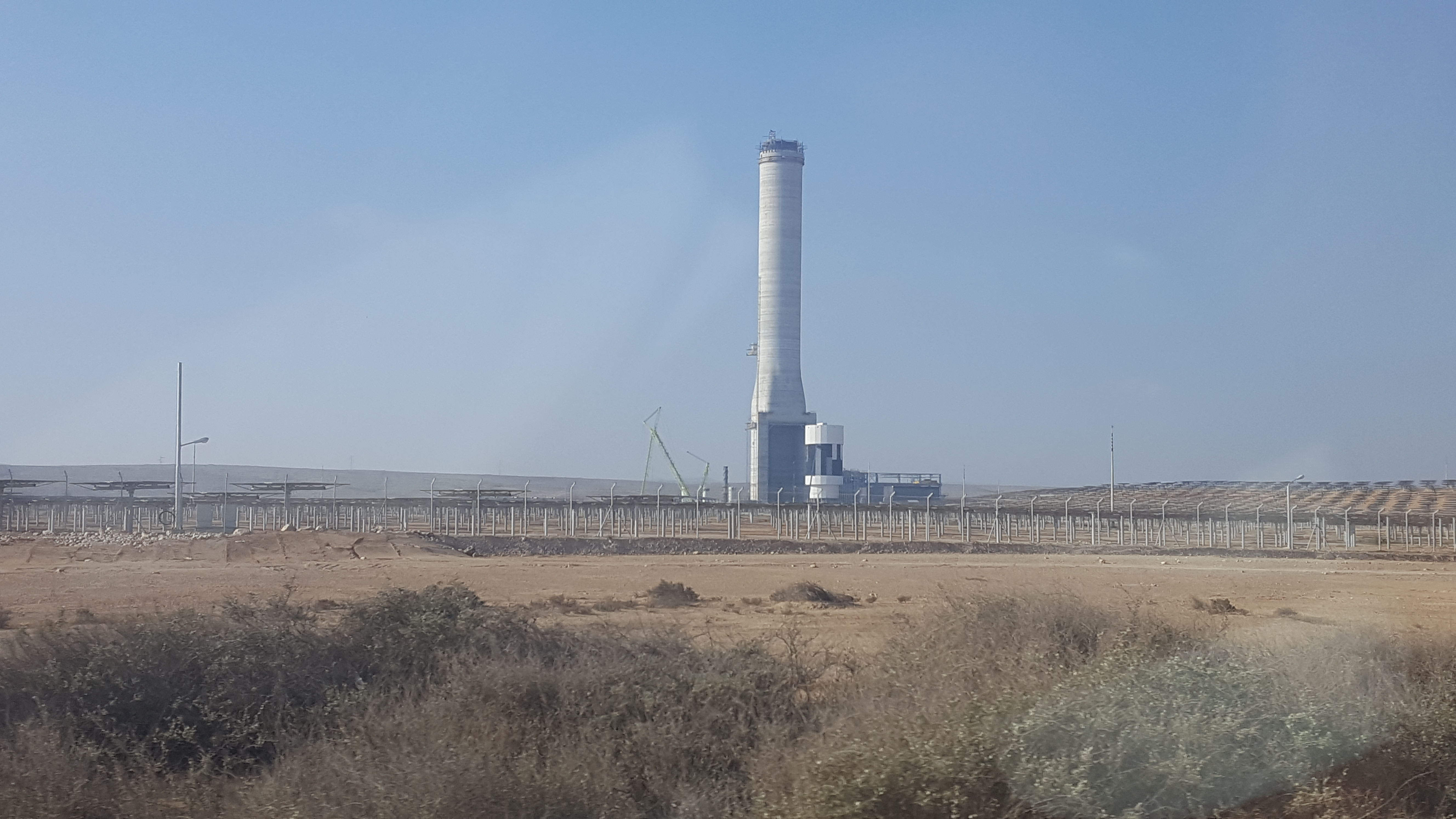 The solar power tower of the Ashalim power station